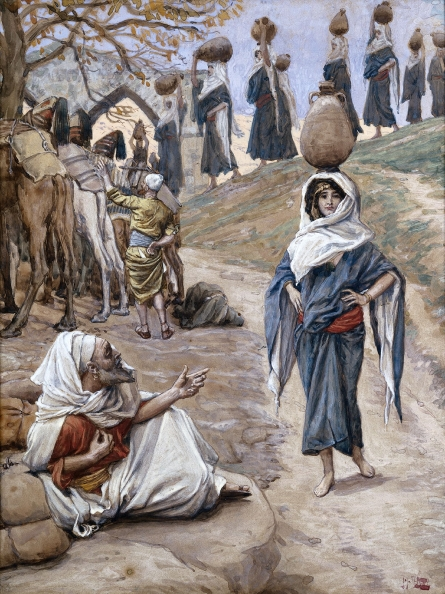 Abraham's Servant Meeteth Rebecca, c. 1896-1902, by James Jacques Joseph Tissot (French, 1836-1902), gouache on board, 10 5/16 x 7 13/16 in. (26.2 x 19.8 cm), at the Jewish Museum, New York